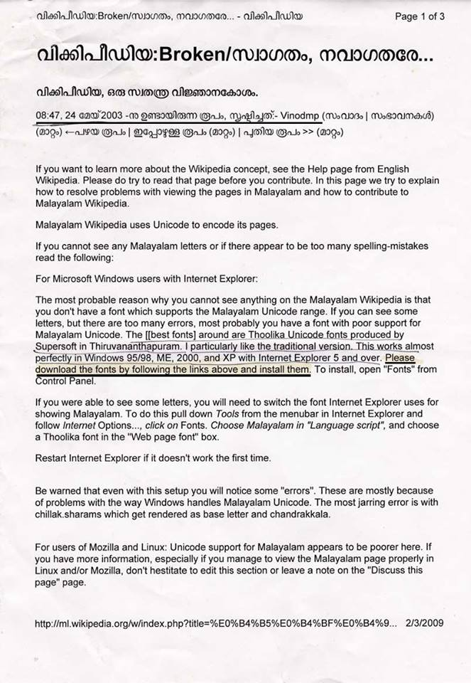 മലയാളം വിക്കിപീഡിയയുടെ തുടക്കം ഇങ്ങനെ പേജ് 1